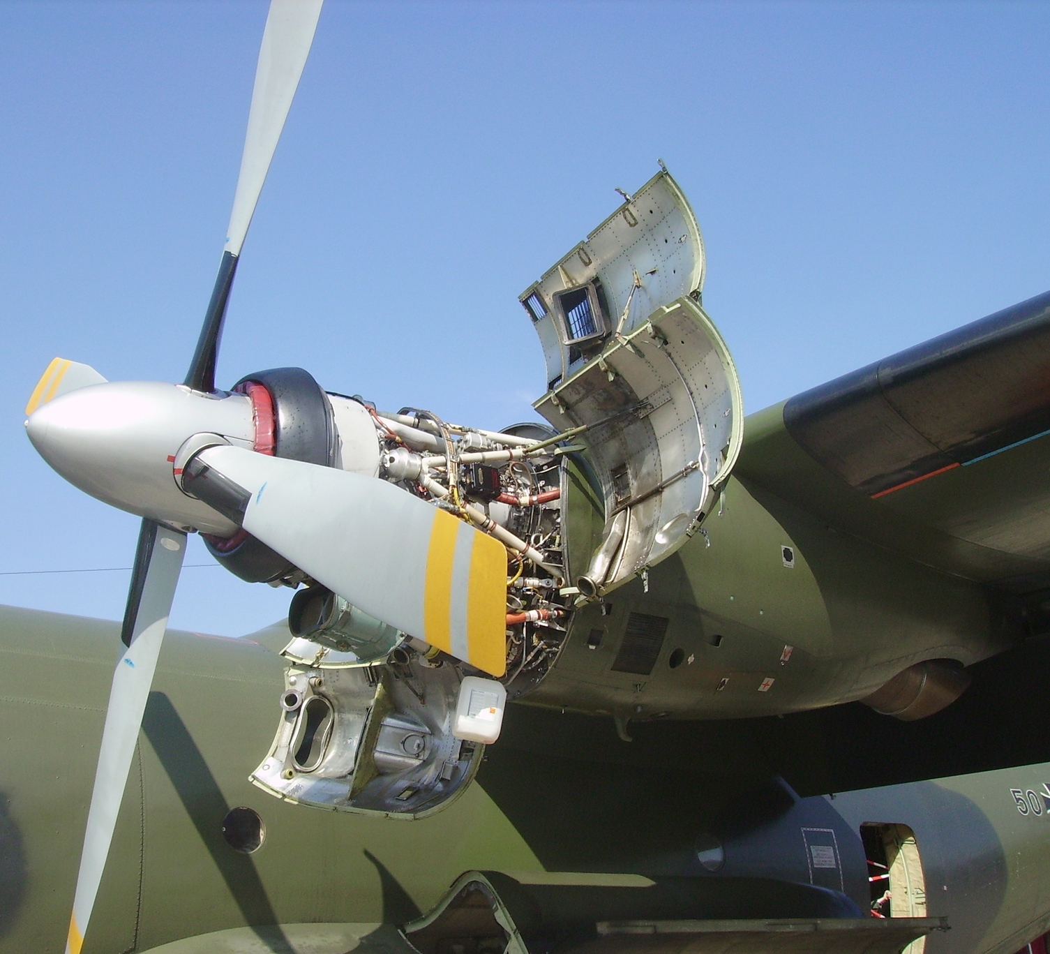 Engine of a Transall C-160 transport aircraft